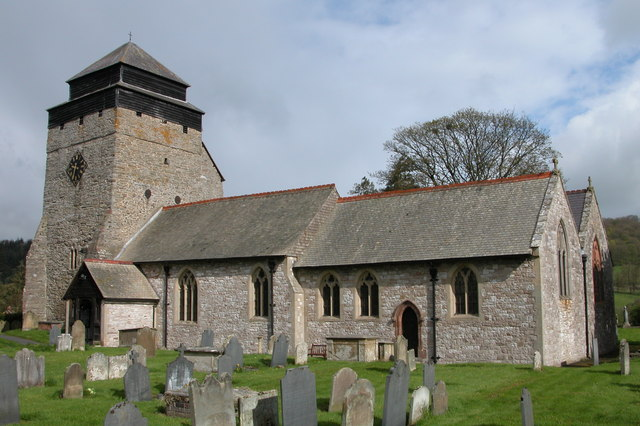 Kerry Church. Kerry church is dedicated to St Michael and All Angels and has the characteristic tower seen on a number of English/Welsh border churches.